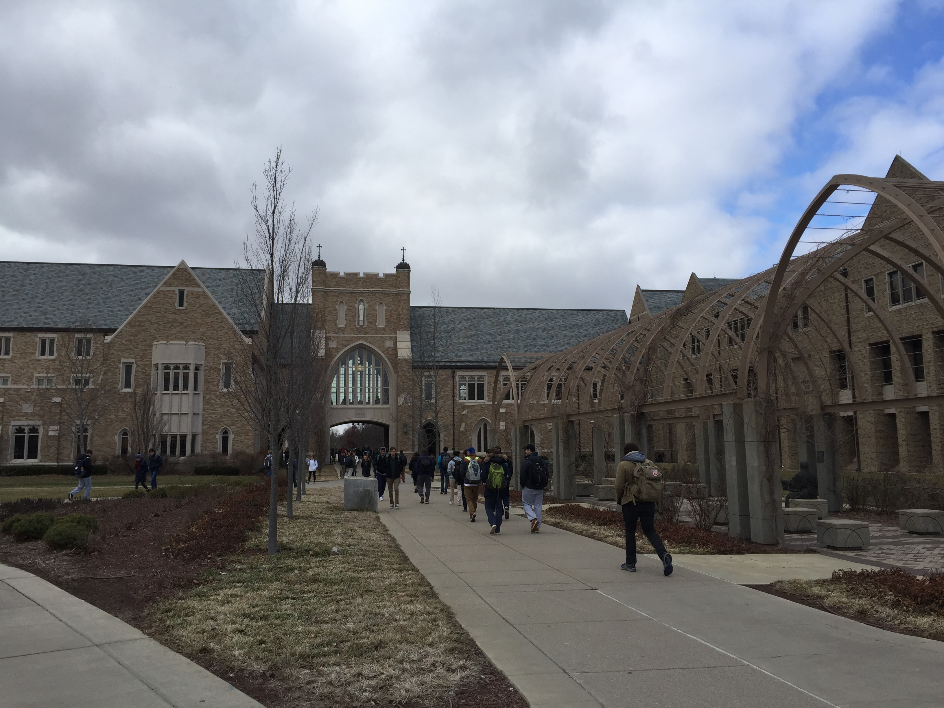 A picture of the University of Notre Dame Law building taken from outside Debartolo Hall.